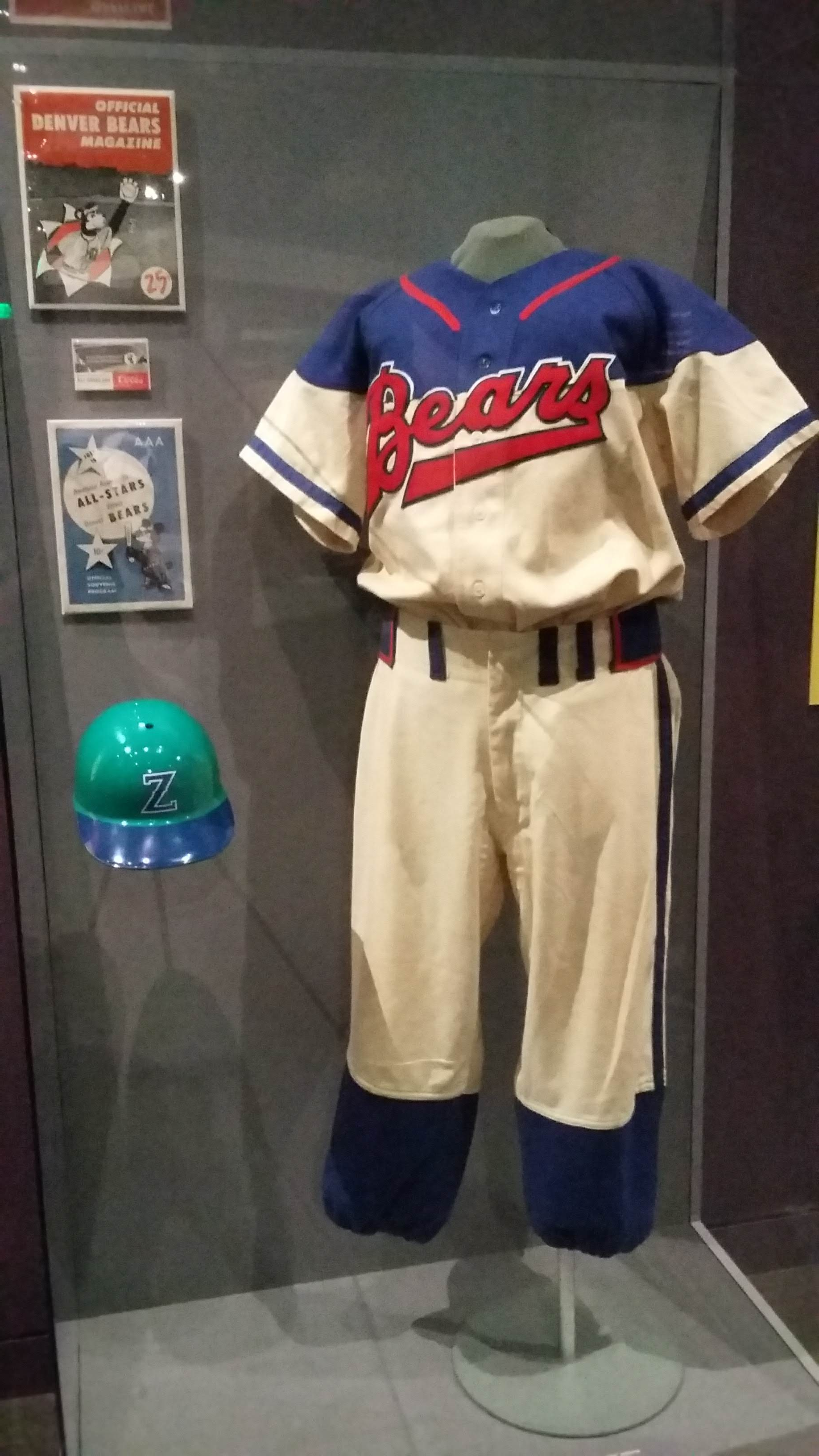 Denver Bears uniform at the Play Ball! exhibit in the History Colorado Center during the 2018 baseball season.